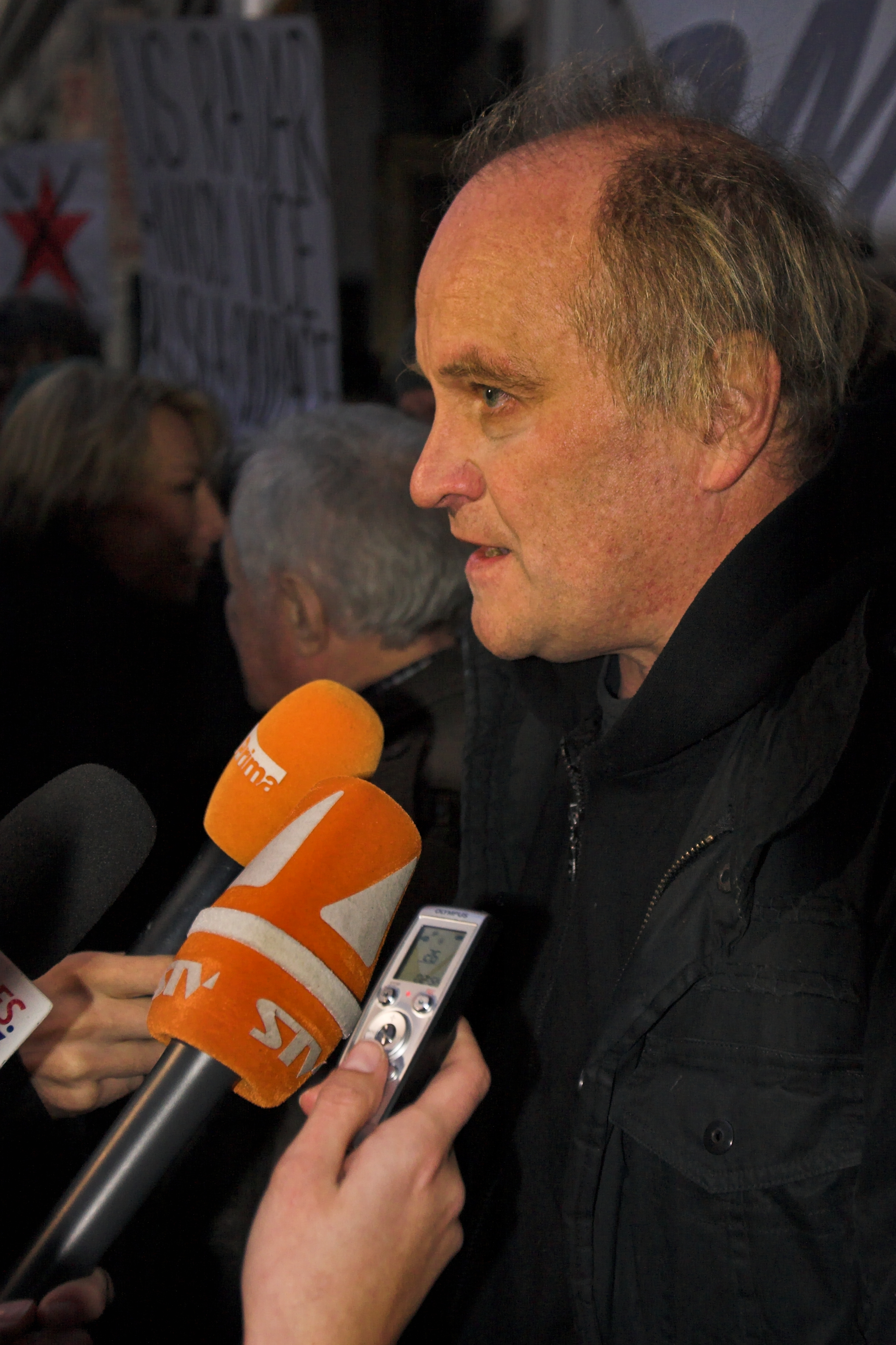 Michael Kocáb while demonstration at Národní třída, Prague.